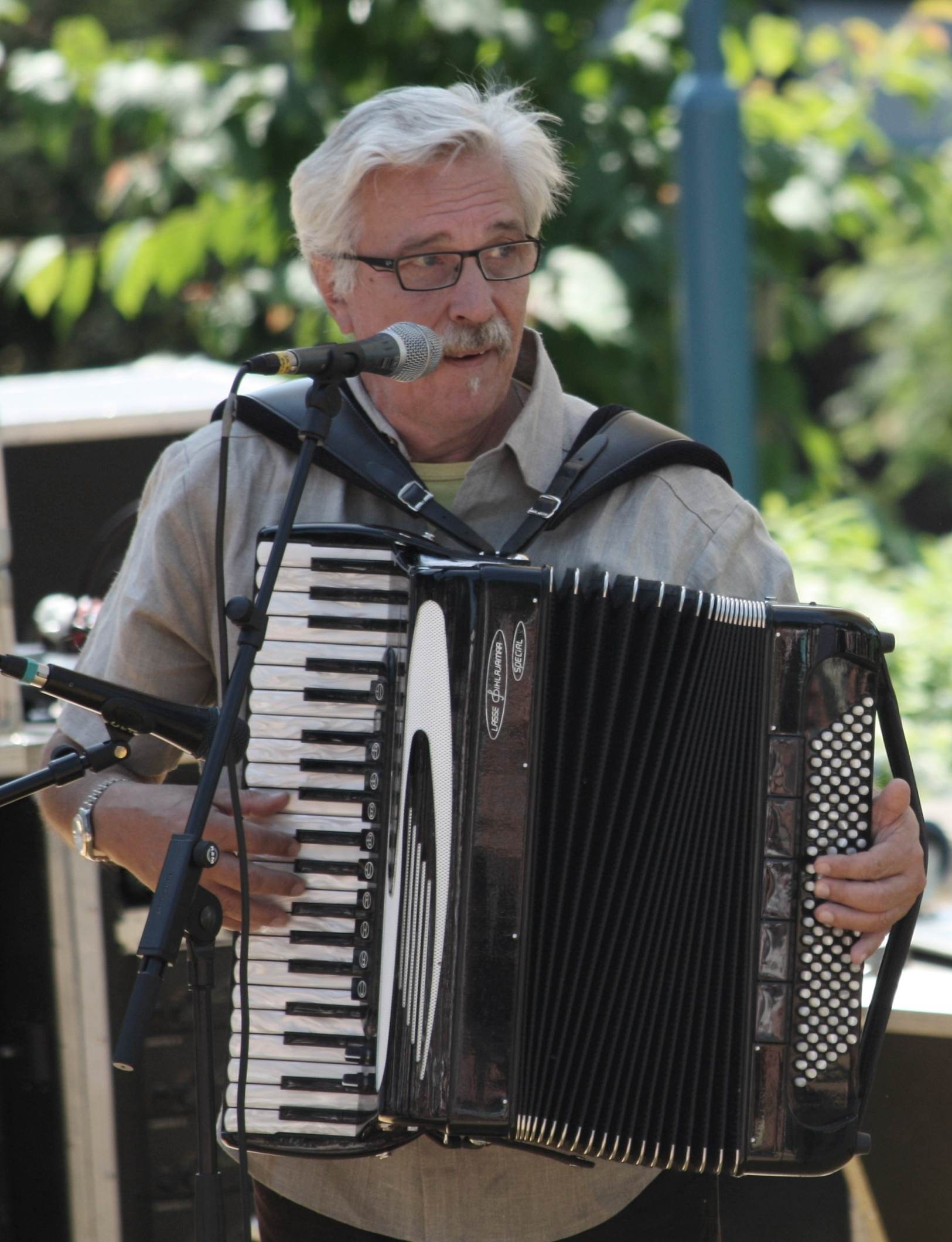 Jani Uhlenius was performing on Aurinkomäki stage.